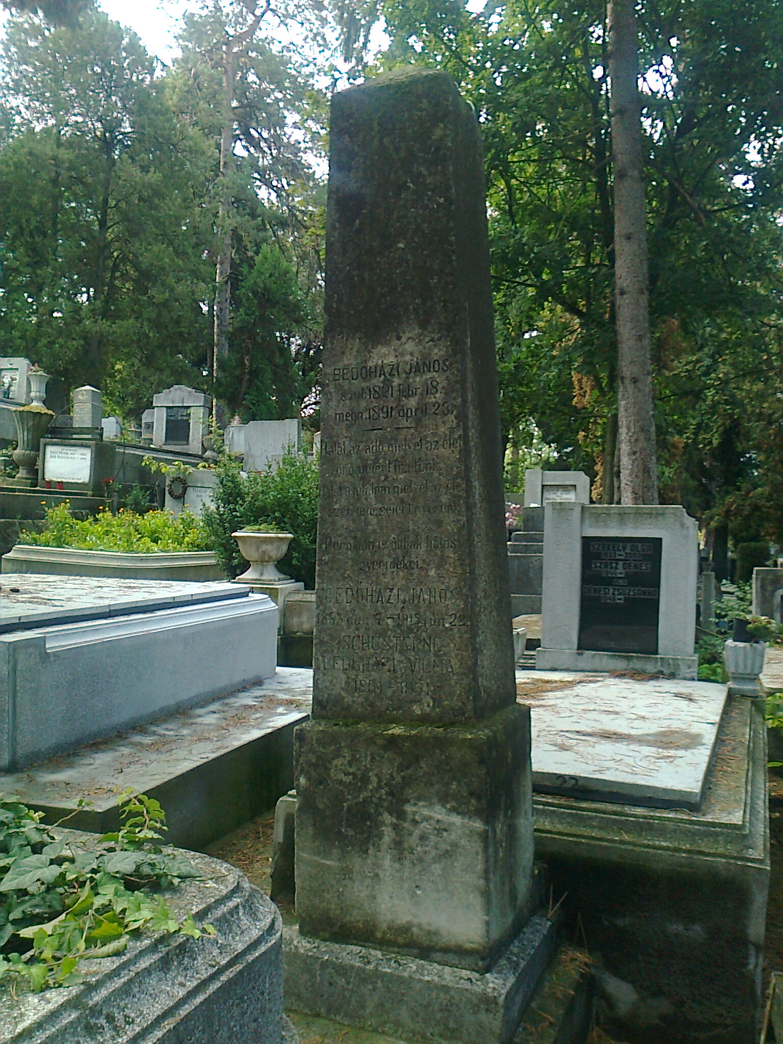 Tomb of Bedőházi János (the first biographer of the Bolyai's) in Marosvásárhely/Tg. Mures